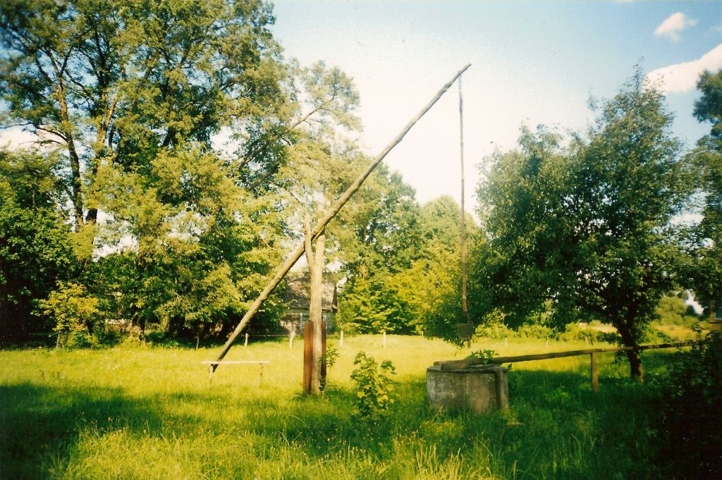 Water well